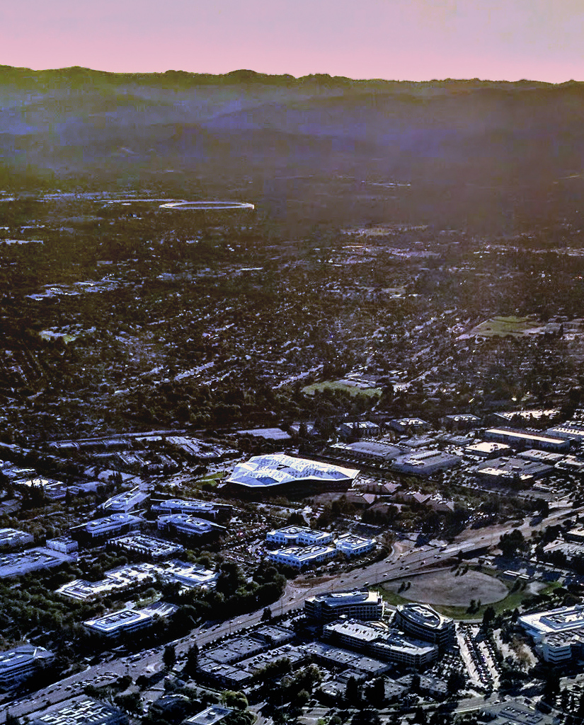 Aerial view of the new Nvidia headquarters building and surrounding campus and area in Santa Clara, California. Apple Park is visible in the distance.